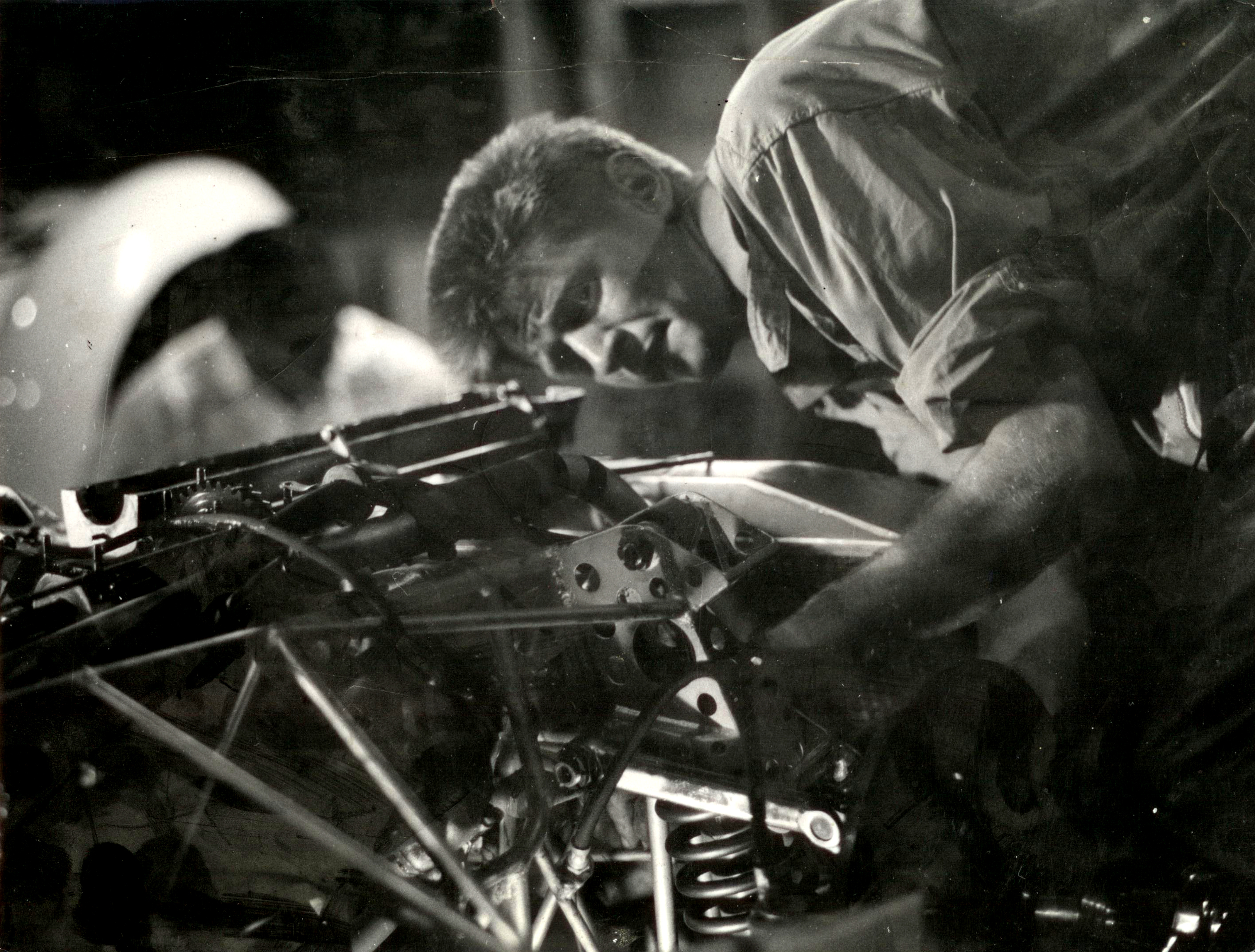 A young Bob Wallace works on a Maserati Birdcage racing car, most likely belonging to the Camoradi USA racing team, sometime in the early 1960s.